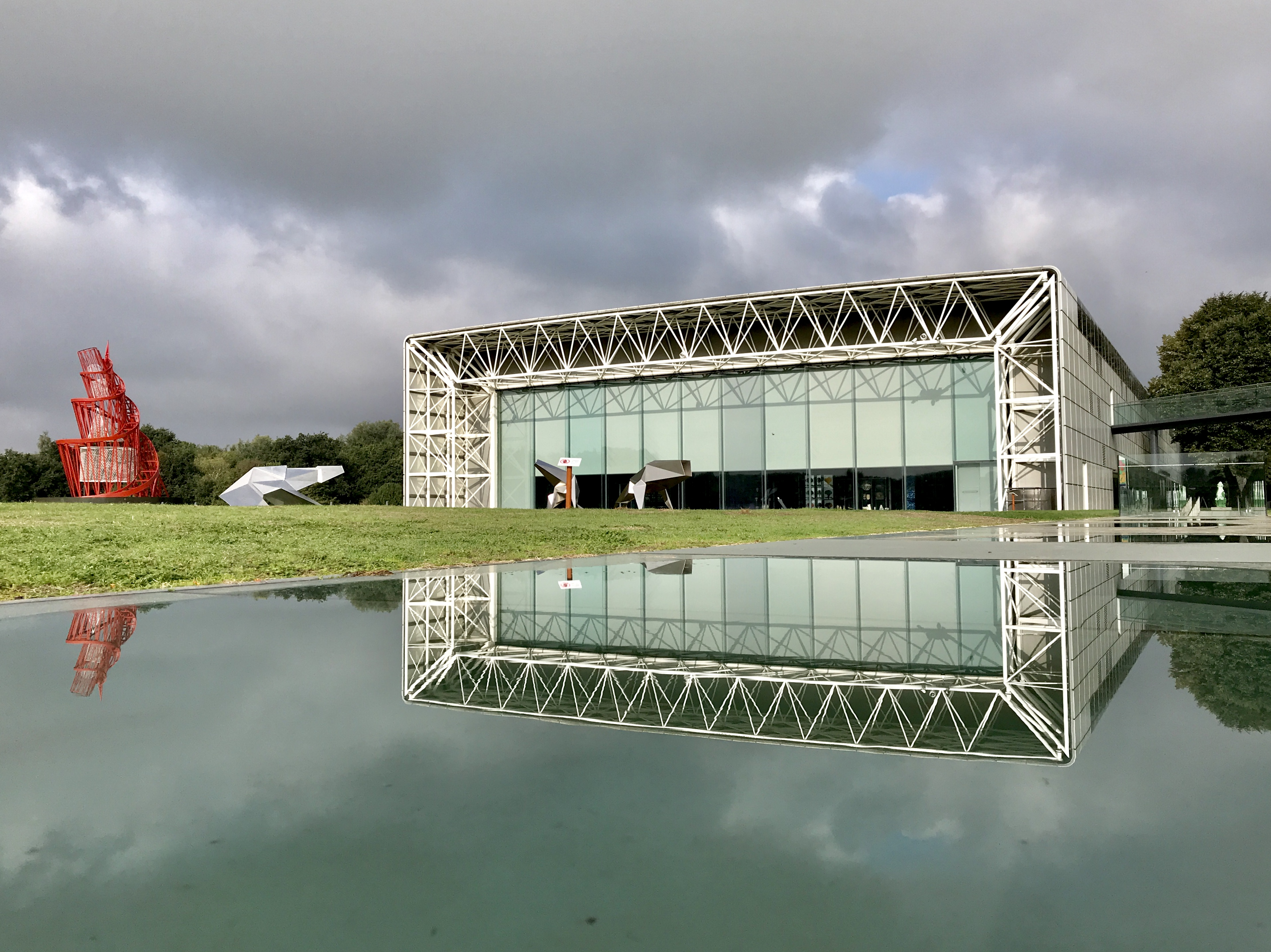 Sainsbury Centre for the Visual Arts in Earlham, Norwich, designed by Norman Foster and completed in 1978.